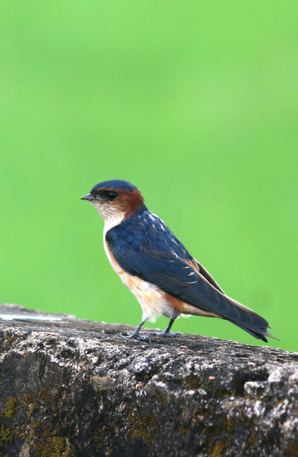 Red rumped swallow